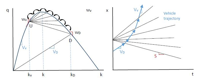 Riemann Problem fundamental diagram case two